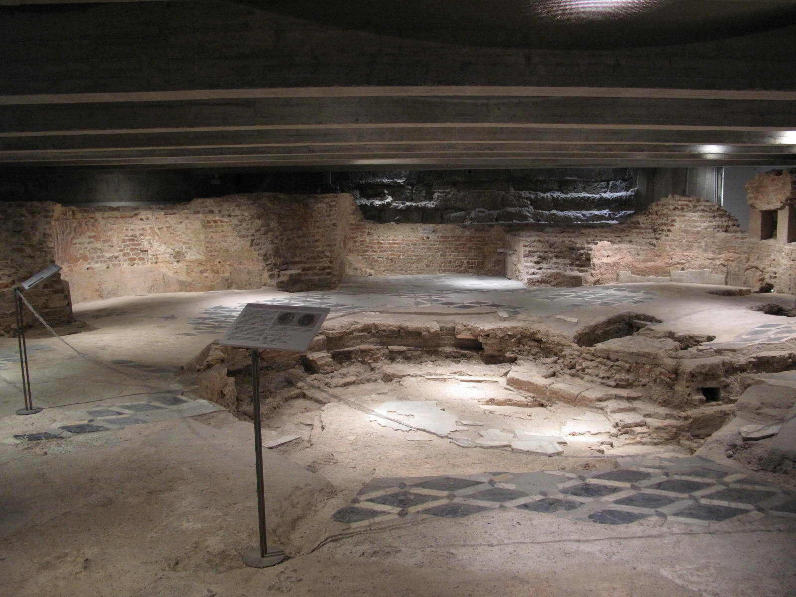 Ruins of the Baptistery of San Giovanni alle Fonti in Milan (second half 4th century)